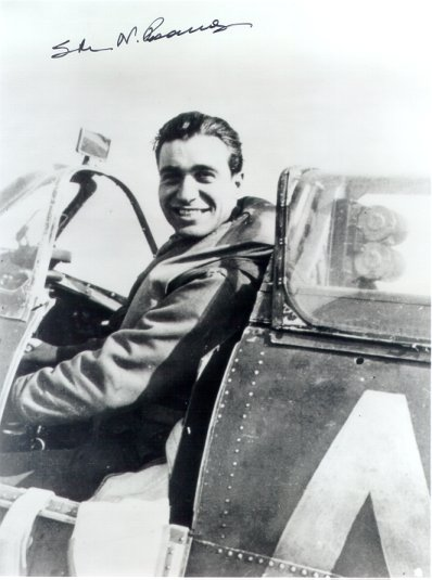 Steve Pisanos, fighter pilot with the British Royal Air Force,signed picture